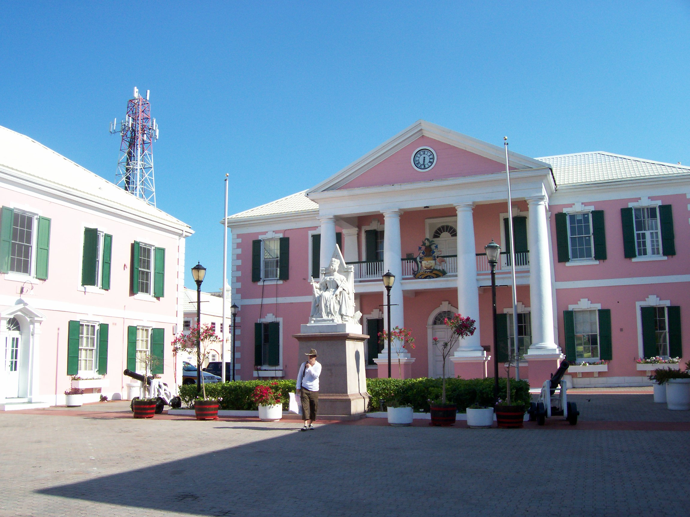 The Bahamian Parliament Buildings in downtown Nassau (I took this photo)